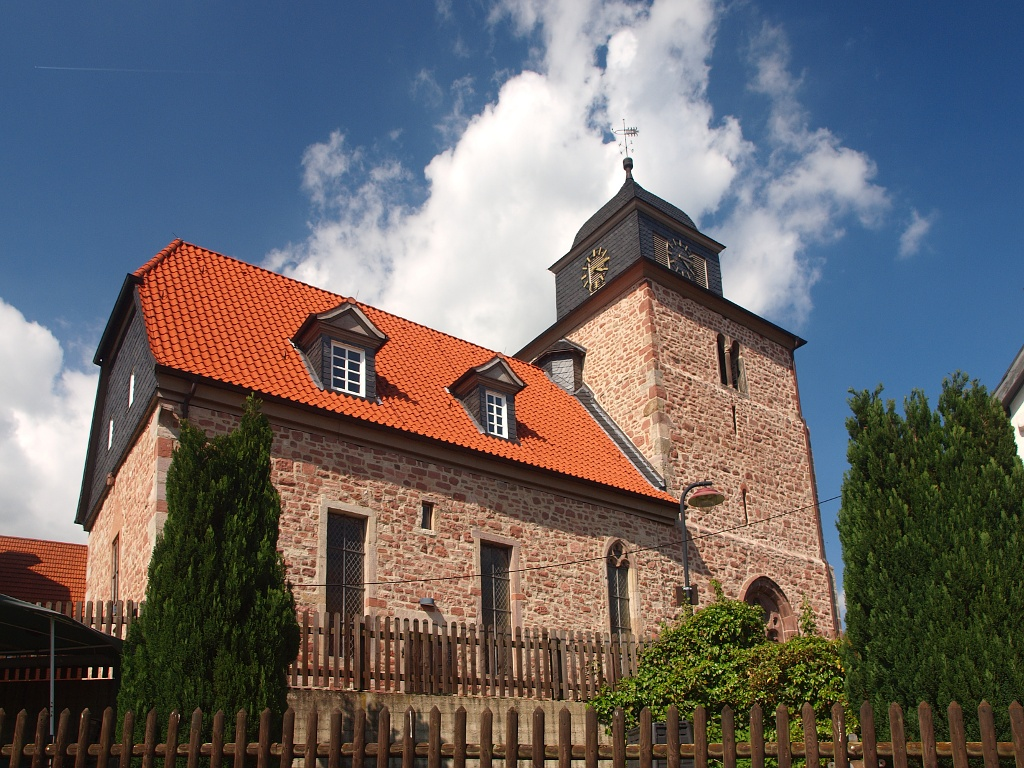 church in Ronshausen